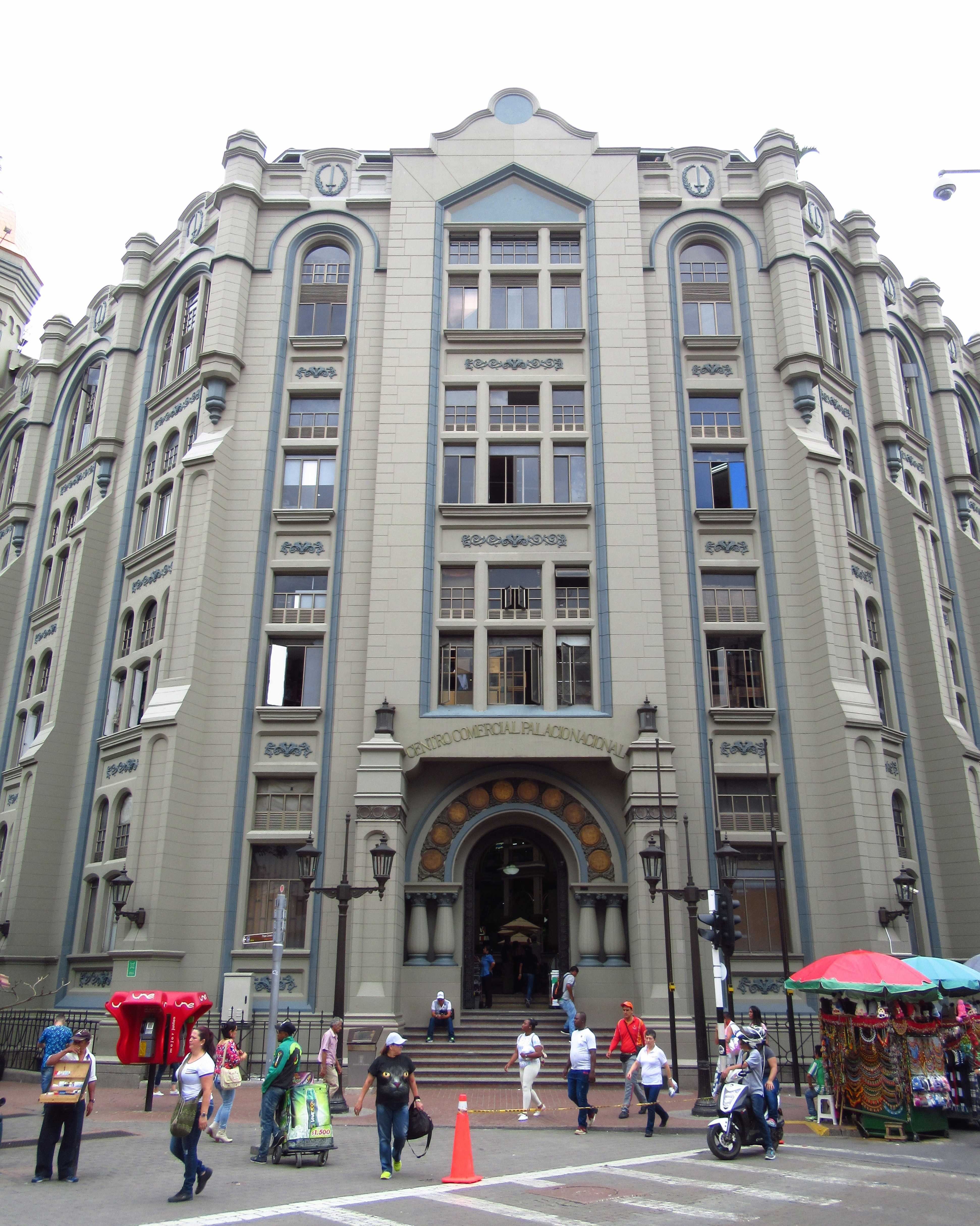 Medellín